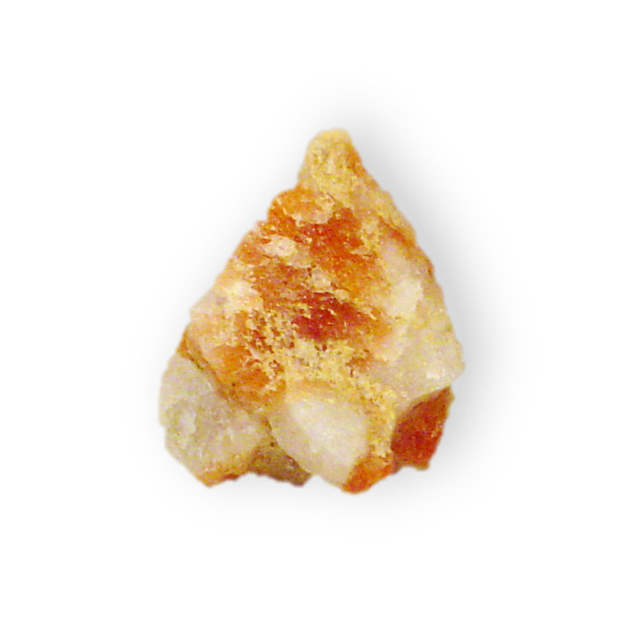 These mineral images are free to use how you wish.